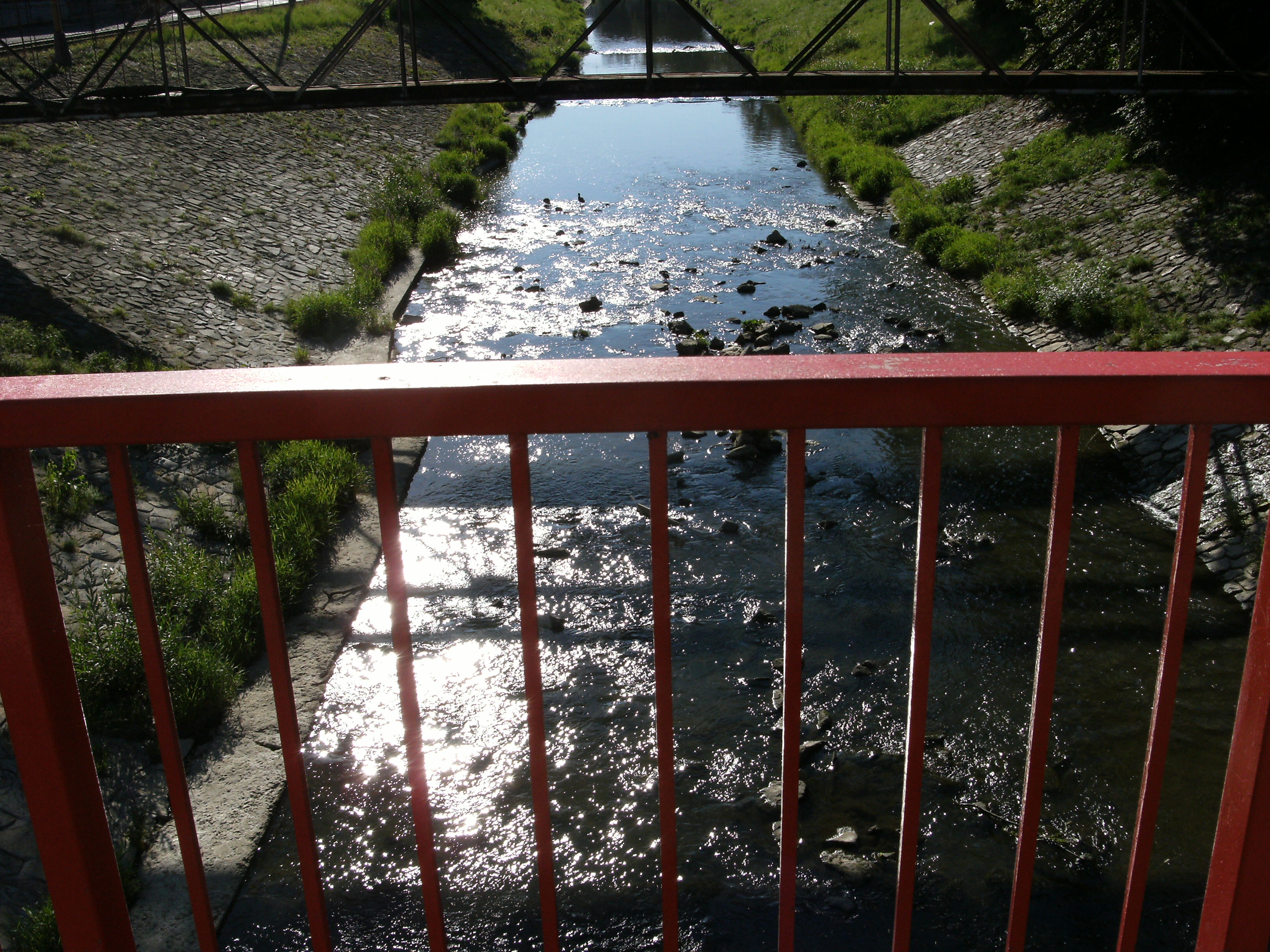 Fence, bridge, and river, Zlín.